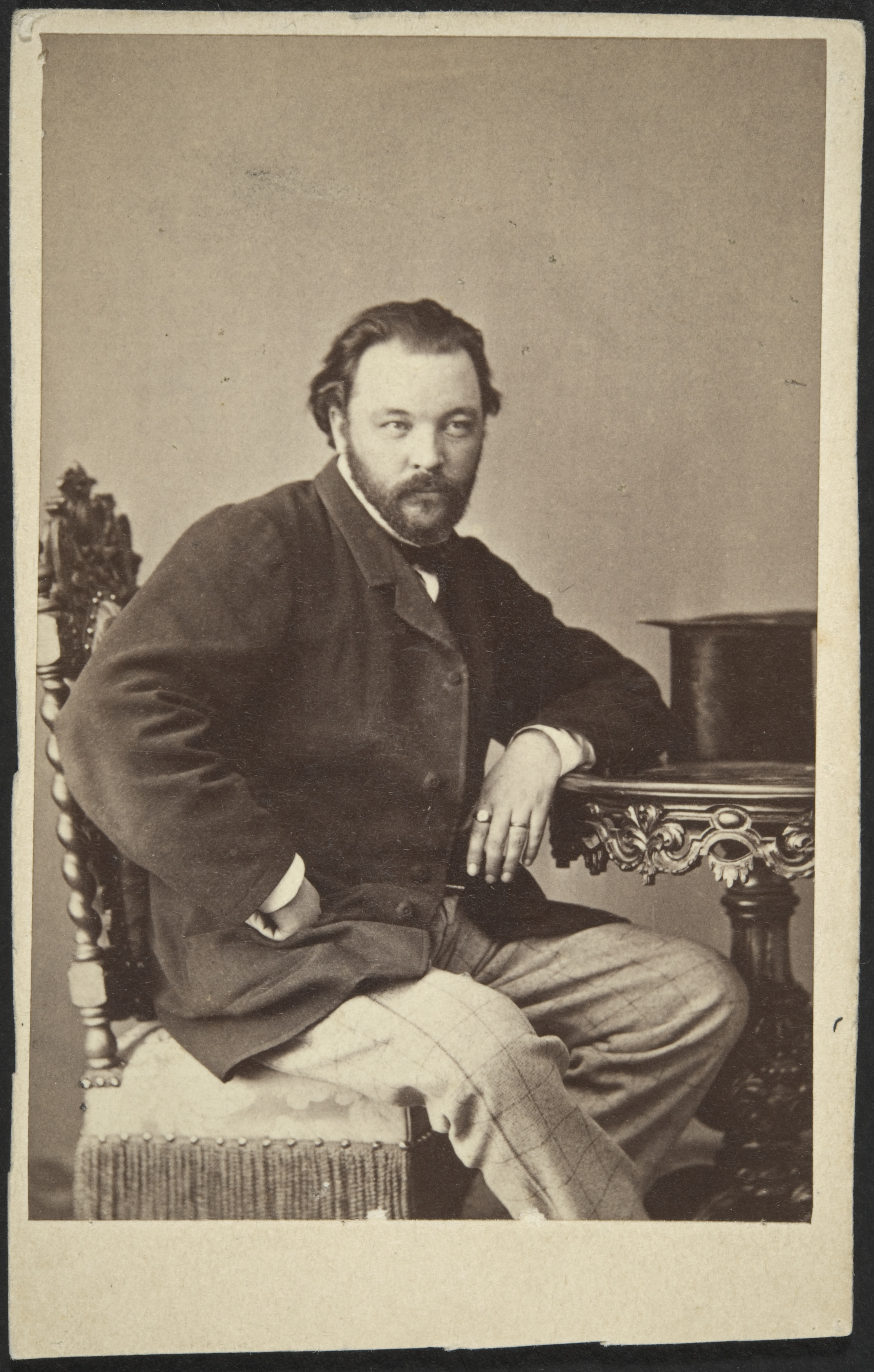 Photograph of the Finnish composer Filip von Schantz (1835–1865).